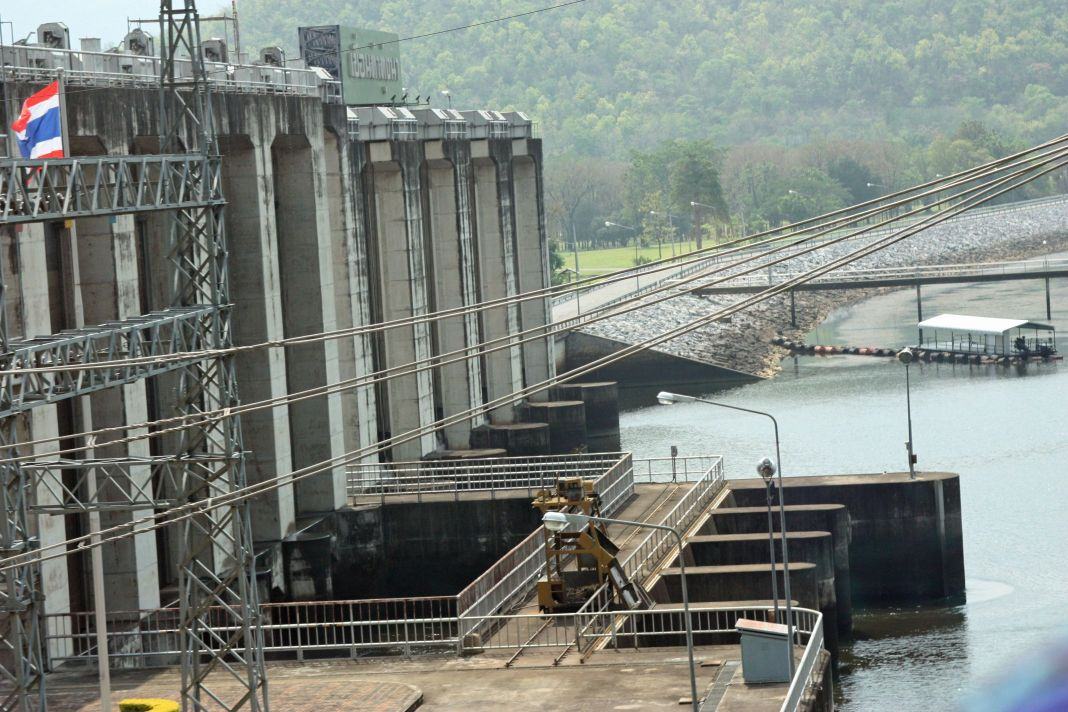 Thathungna dam (เขื่อนท่าทุ่งนา) between Srinakarin Lake in Thailand (Khwae Yai River).